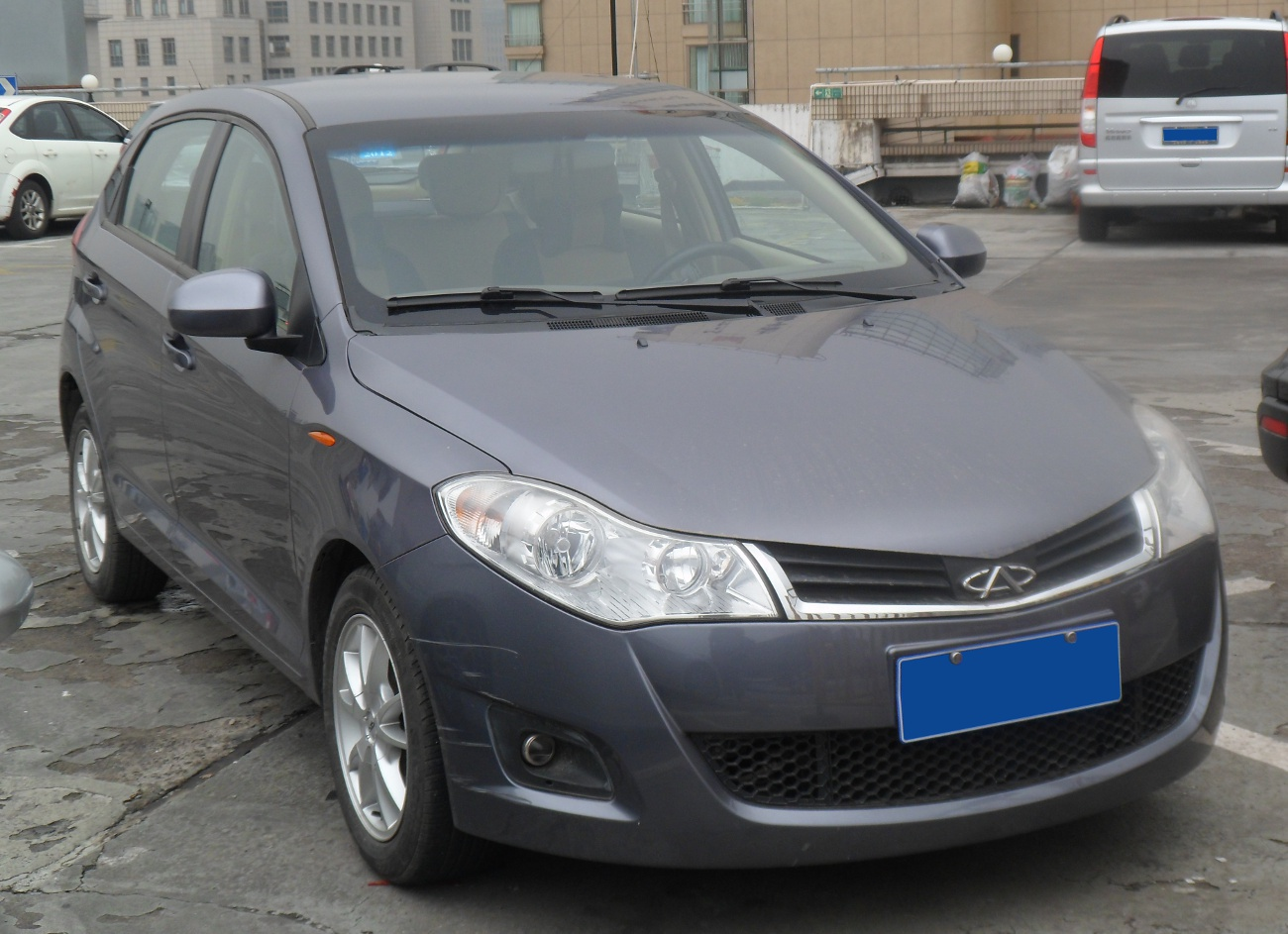 Chery Fulwin 2 hatch photographed in Shanghai, China.